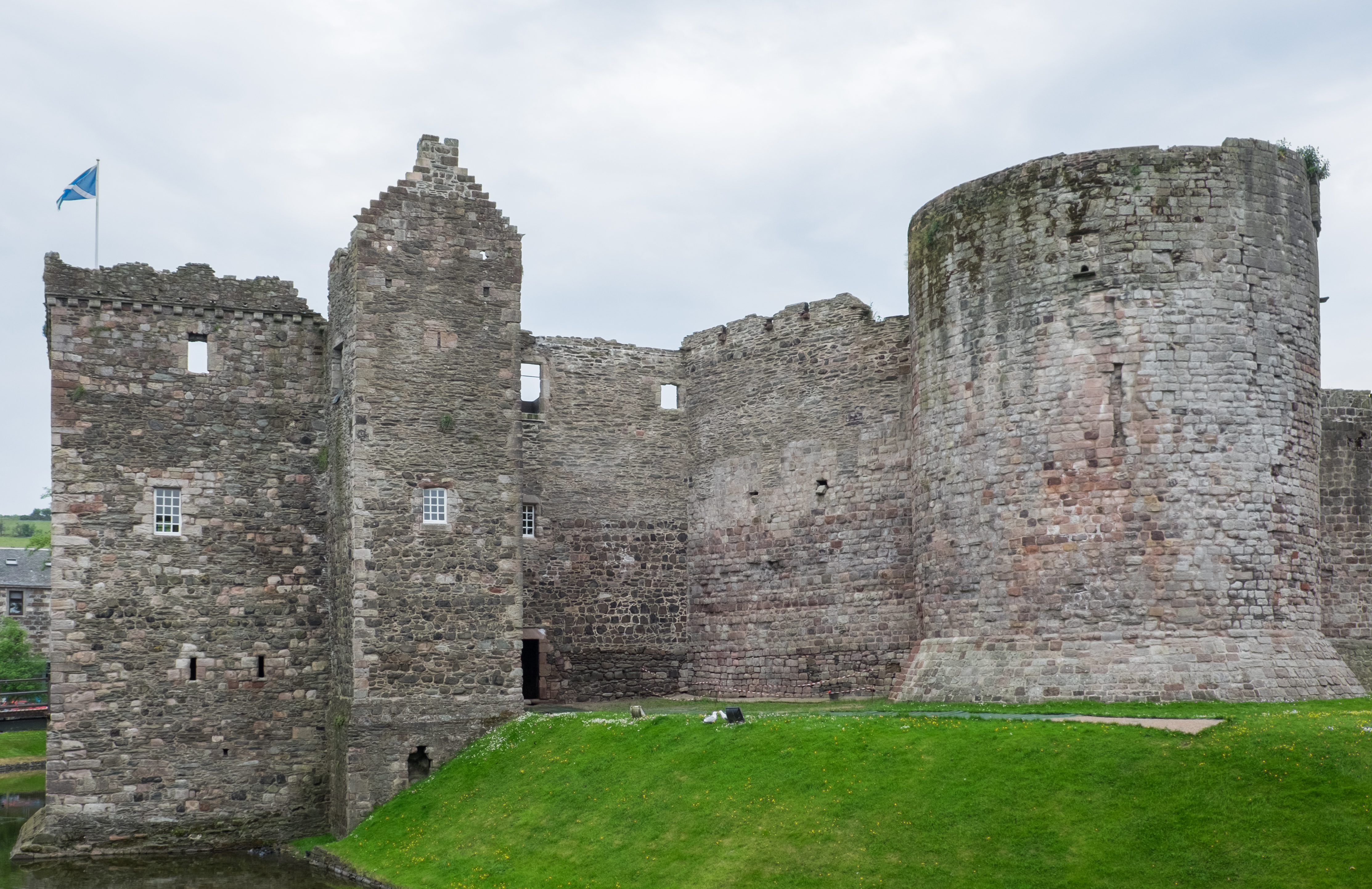 Rothesay Castle, Isle of Bute. Showing the Gatehouse and the Pigeon Tower.